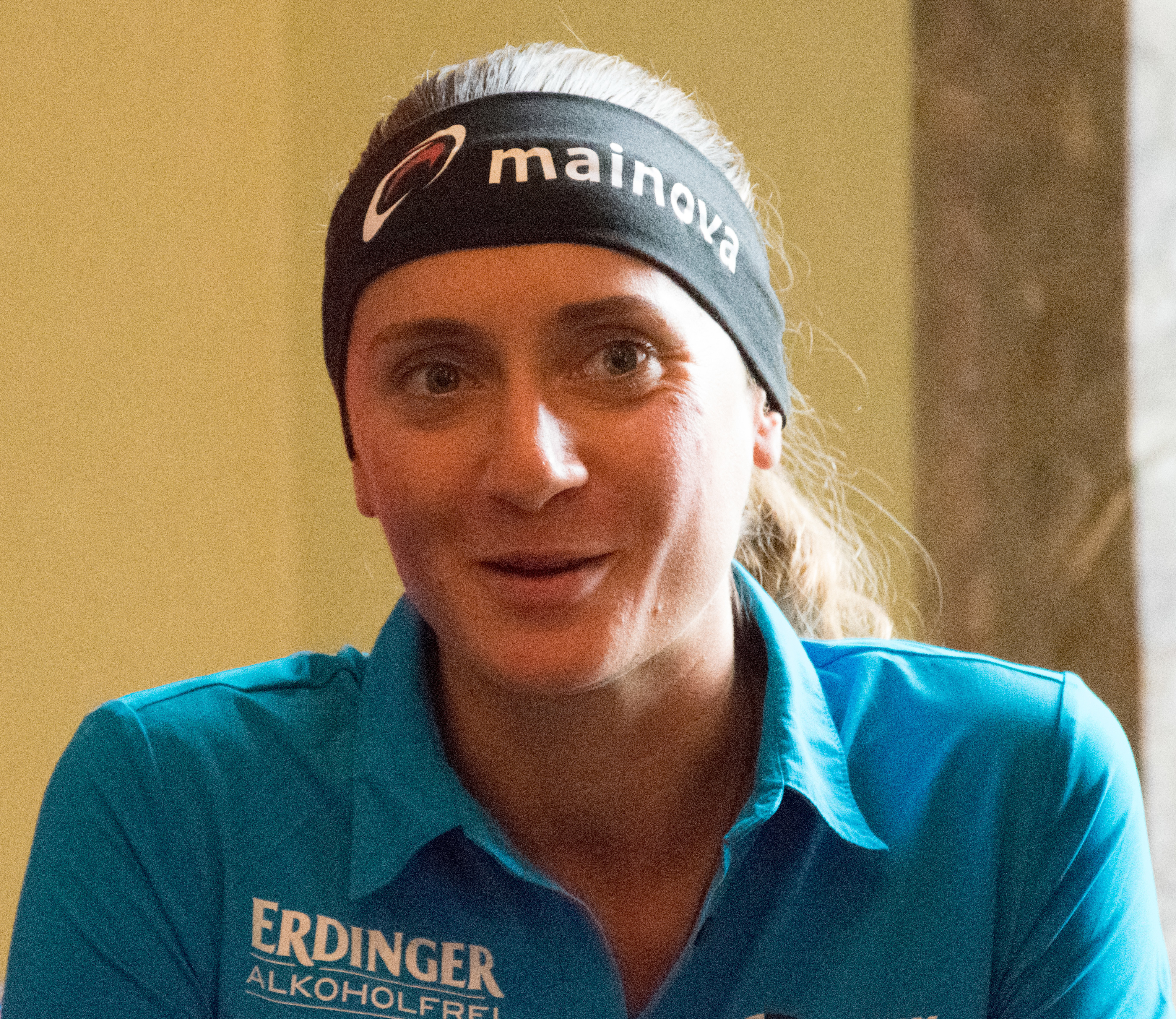 Ironman 70.3 Germany am 14. August 2016 in Wiesbaden